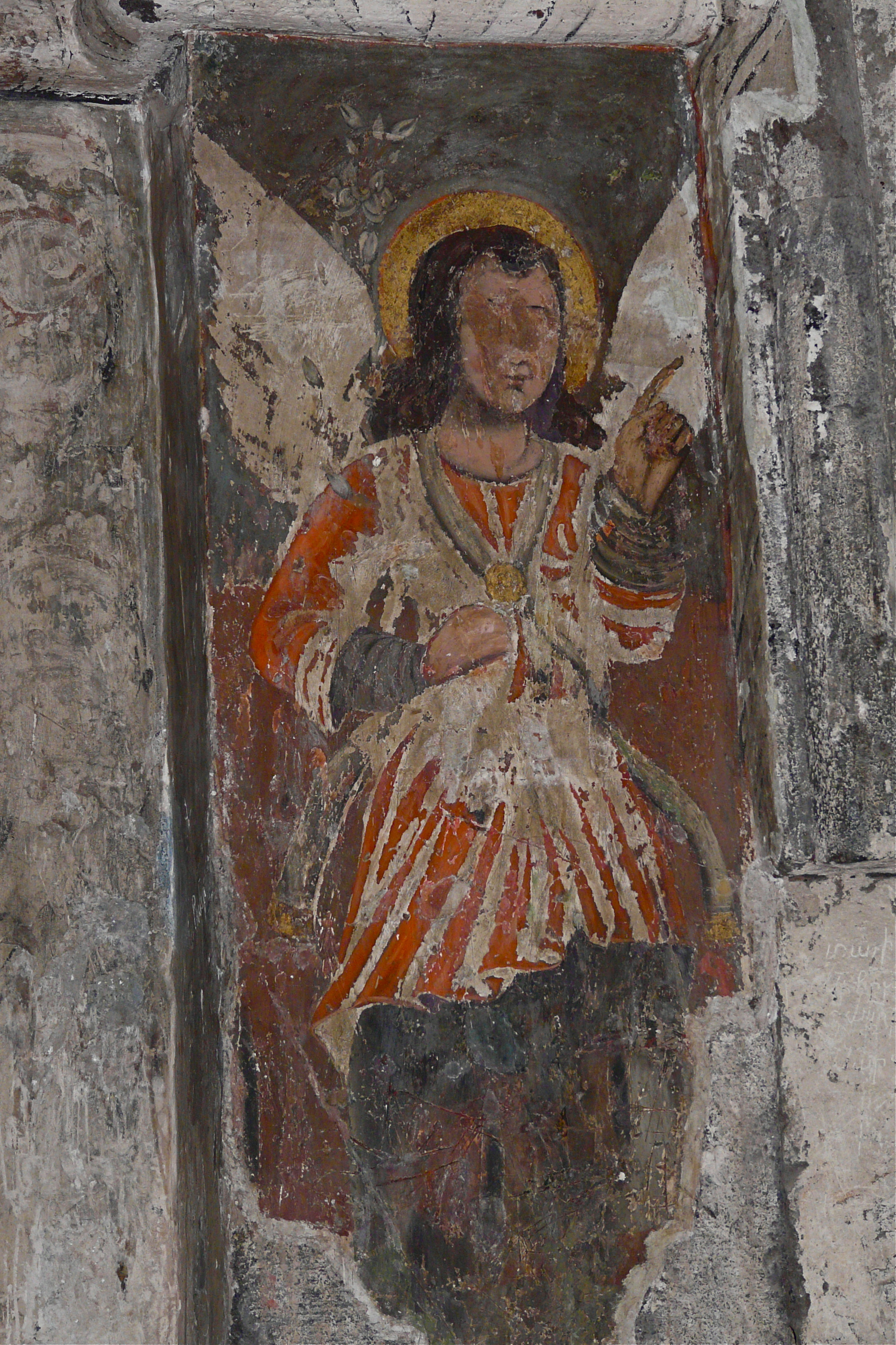 Paintings of the matenadaran, Saghmosavank, Armenia.